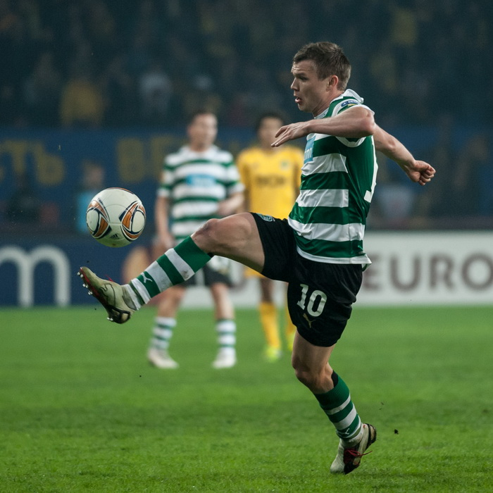 Marat Izmailov